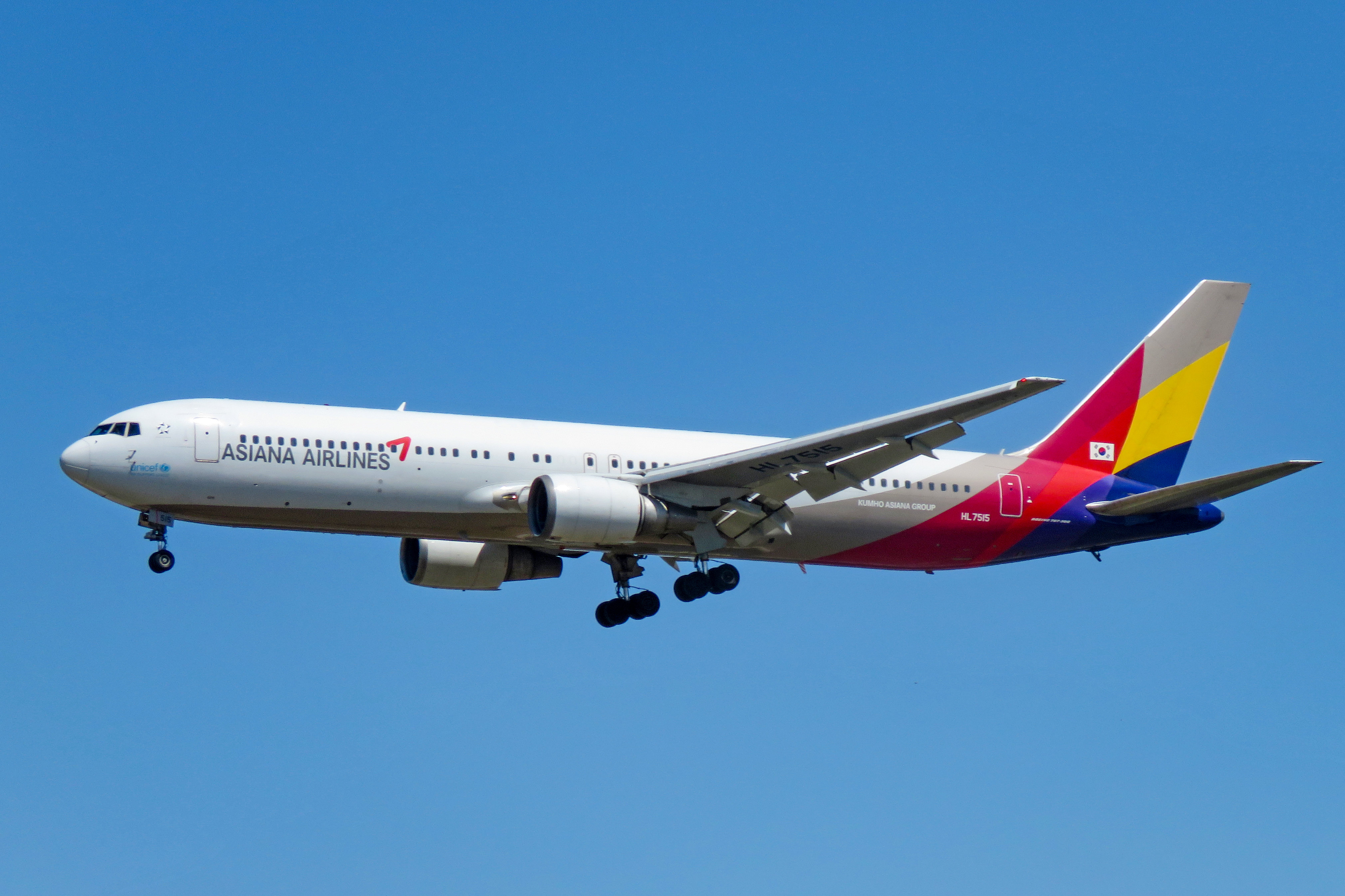 Asiana 333 from Seoul-Incheon, using rare 767.